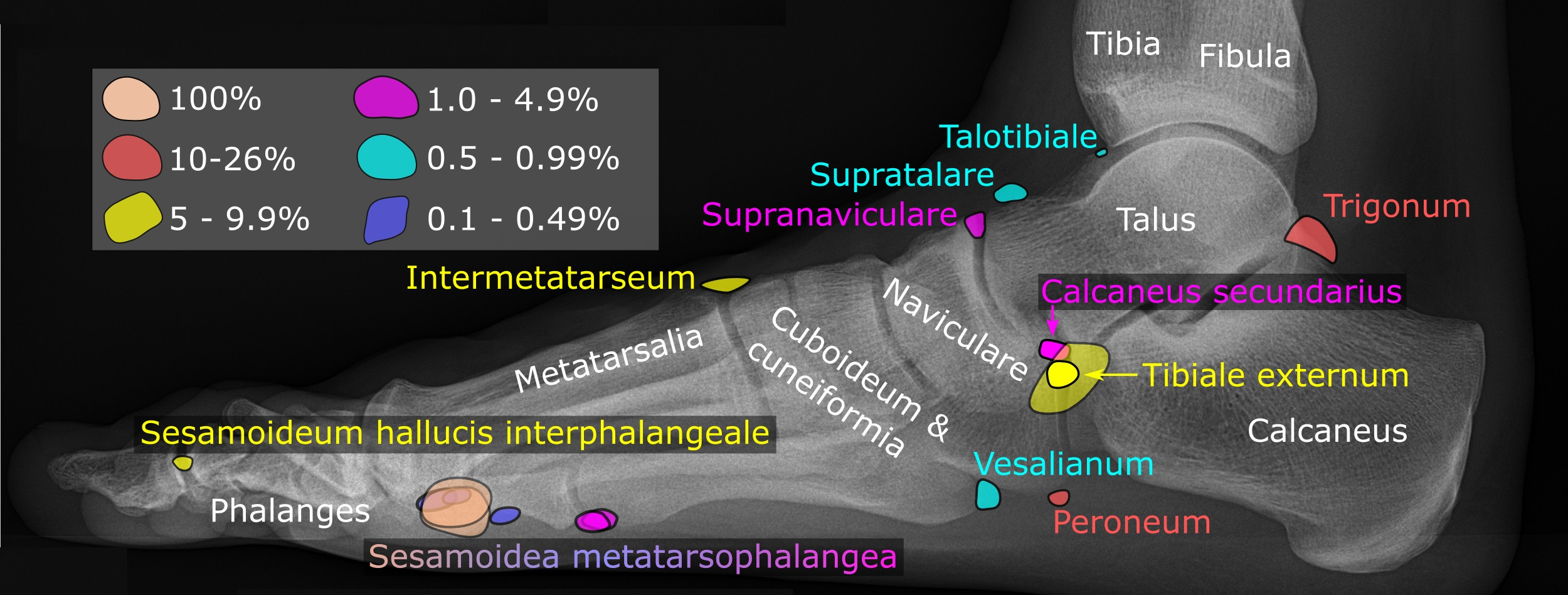 Latin version of X-ray of the right foot by lateral projection, with accessory and sesamoid bones colored by their prevalences.